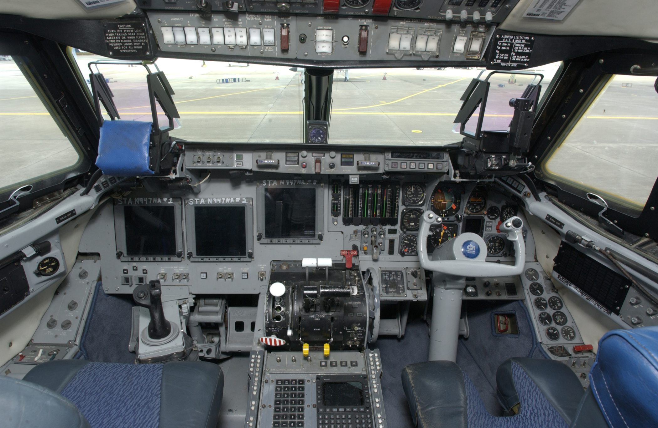 The photo shows the Shuttle commander's side of the cockpit, with a heads-up display (HUD), a rotational hand controller (RHC) for flying the vehicle, and multi-function displays, as in the Shuttle. The instructor pilot sits on the right-hand side of the STA cockpit, and has conventional aircraft controls and instruments.